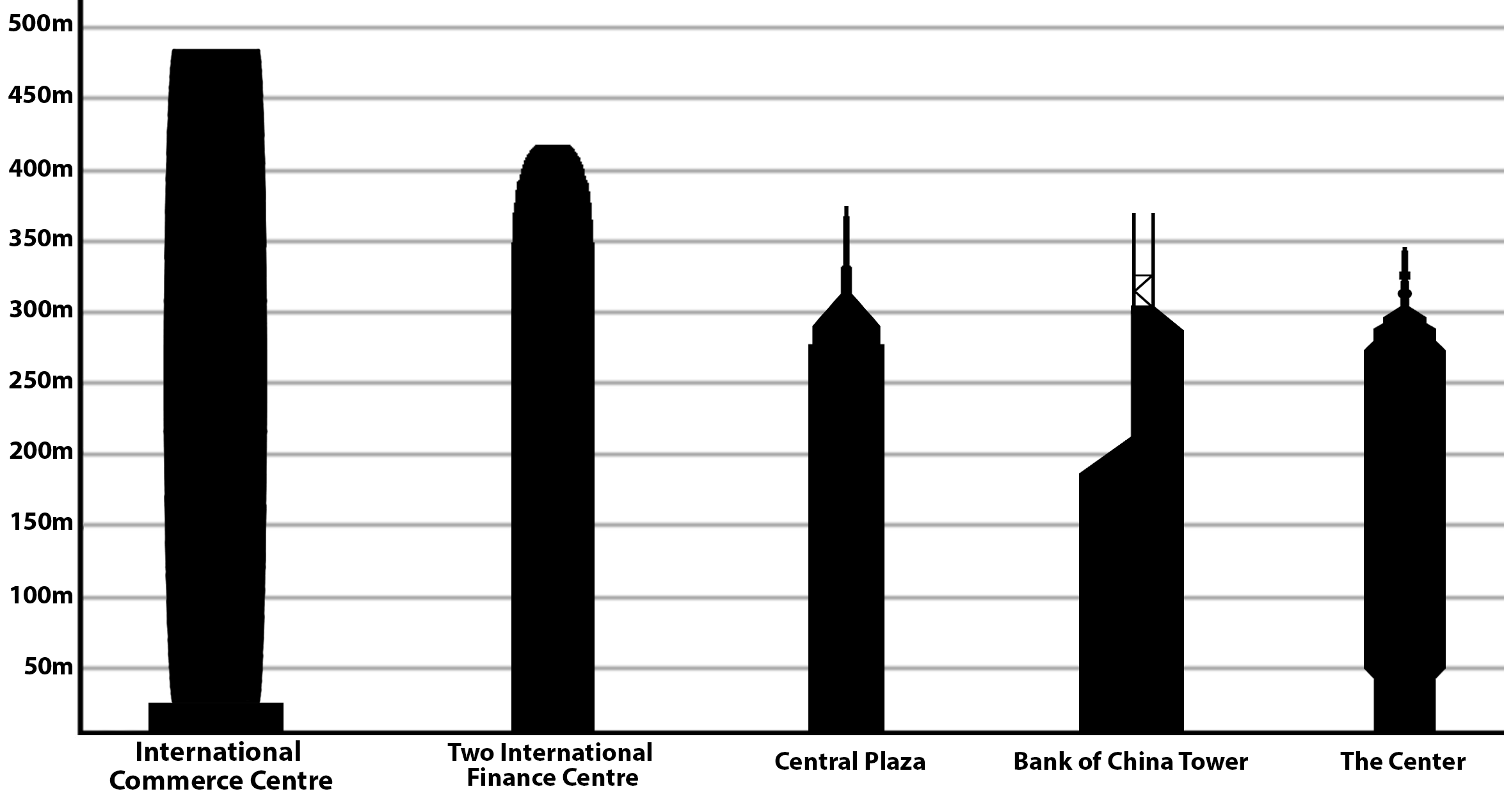 Tallest buildings in Hong Kong; Used data from .